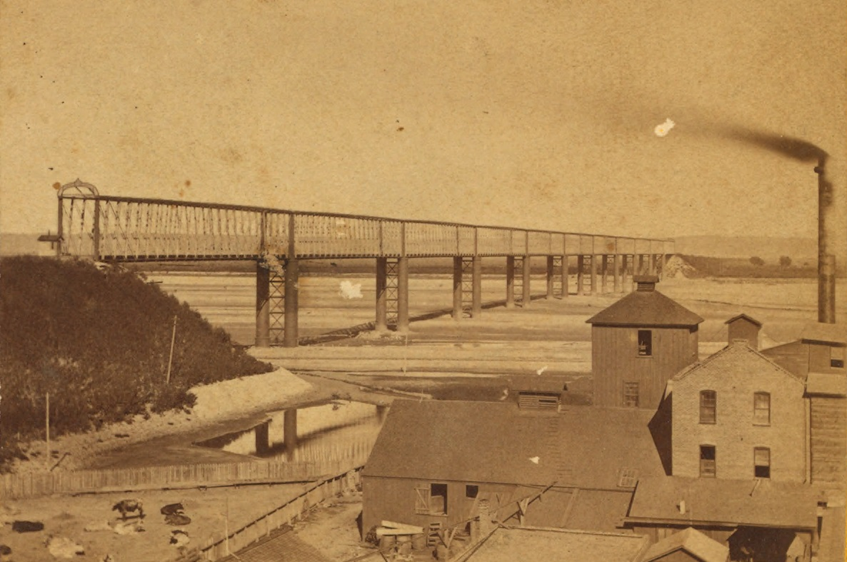 Union Pacific Railroad bridge to Omaha. Alternate Title: Iowa Views.